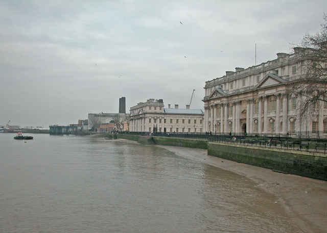 Trinity College Music college on the Greenwich University campus, formerly the Royal Naval College Greenwich.